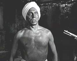 Sam Jaffe as Gunga Din in Gunga Din film, 1939